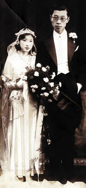 Fu Lei and Zhu Meifu wedding